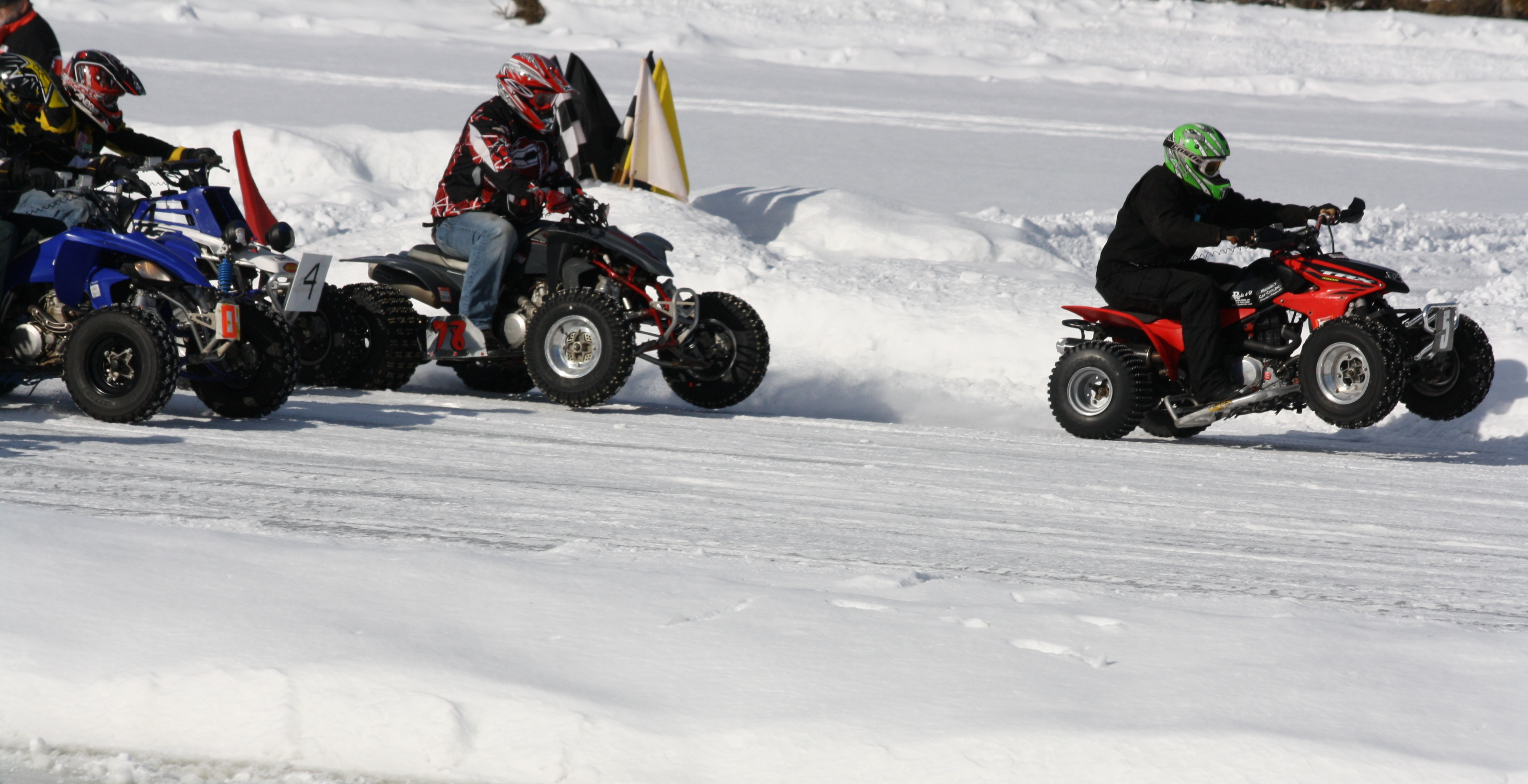 A studded ATV got a huge holeshot while ice racing at the Caroline Valley Ice Racing. The ATVs started from a standing start. You can see the race starter (flagman) on the upper left and most of the riders weren't far from him. The rider of the red ATV barely won the race by a few inches (centimeters) over the blue rider.